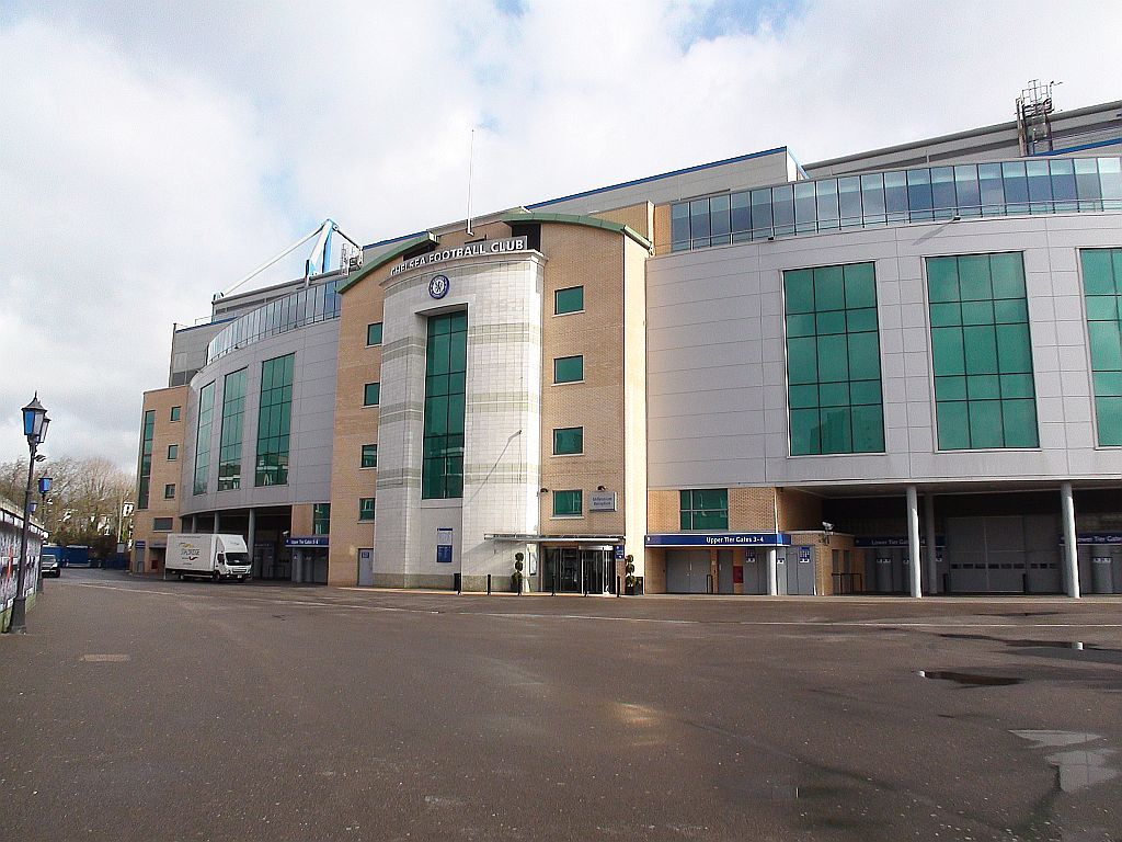 Stamford Bridge, London, England.